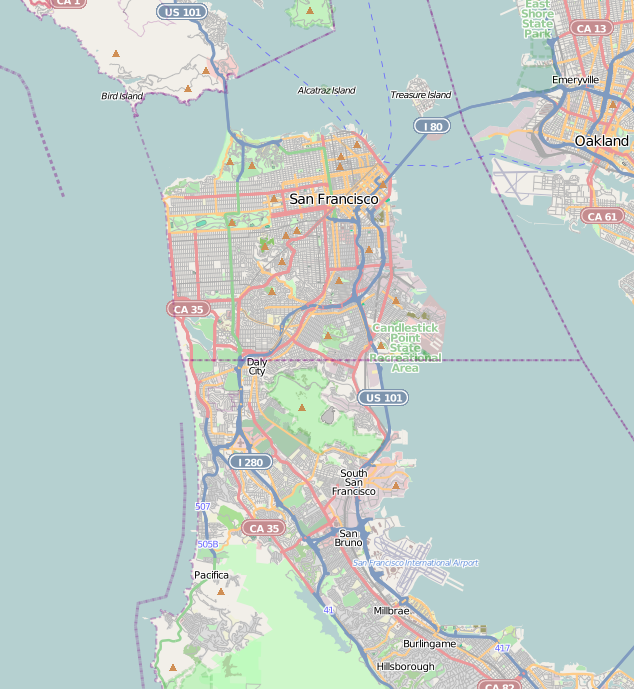 This map of San Francisco and vicinity was created from OpenStreetMap project data, collected by the community. This map may be incomplete, and may contain errors. Don't rely solely on it for navigation.